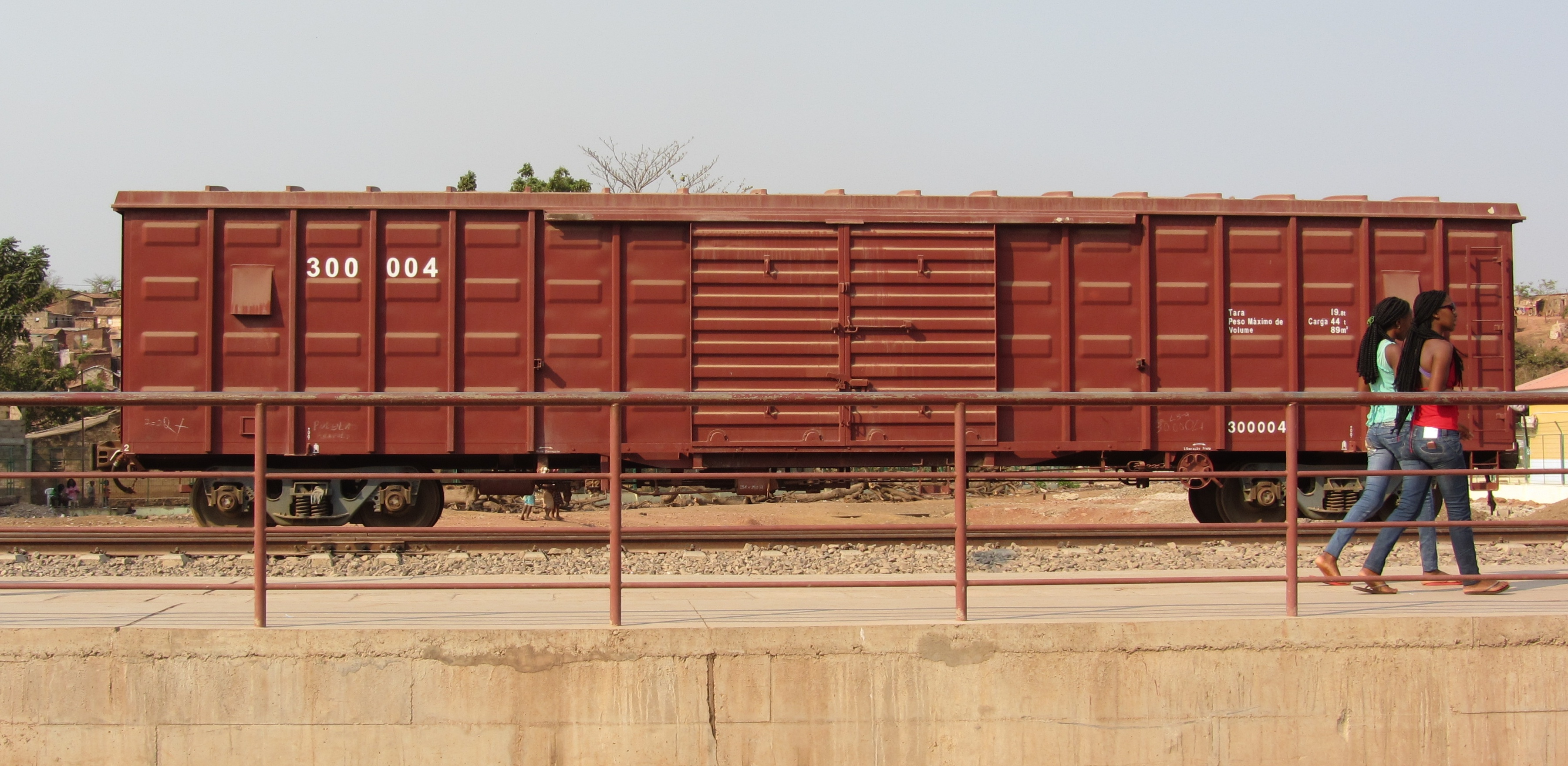 One of the new freight cars of CFL (Caminho de Ferro de Luanda E.P.). New in 2011...